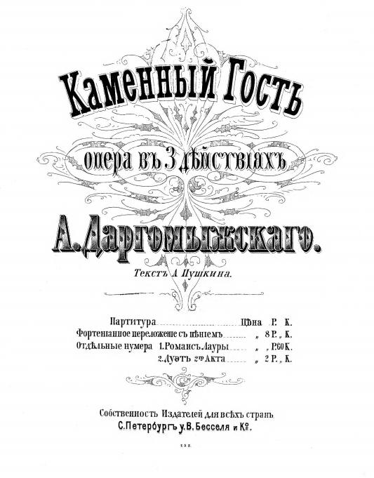 Title page of the score for Dargomïzhsky's The Stone Guest (V. Bessel & Co., Saint Petersburg)